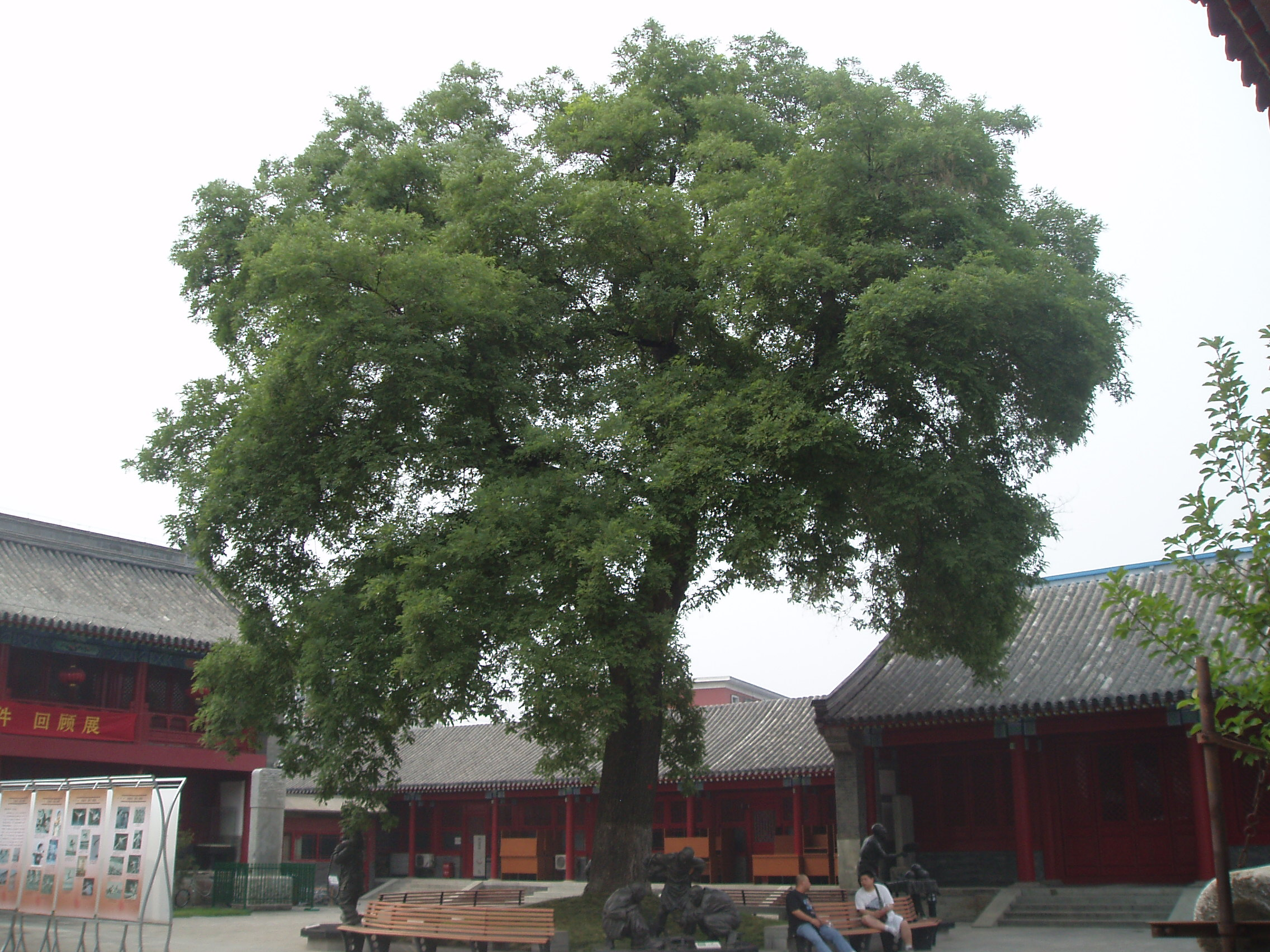 Large tree in the final courtyard of the Changchun Temple